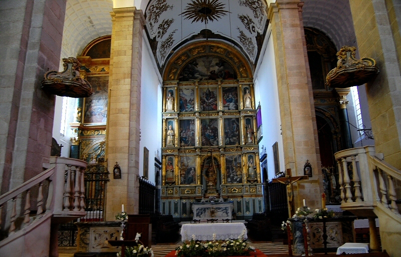 Portalegre_Municipality